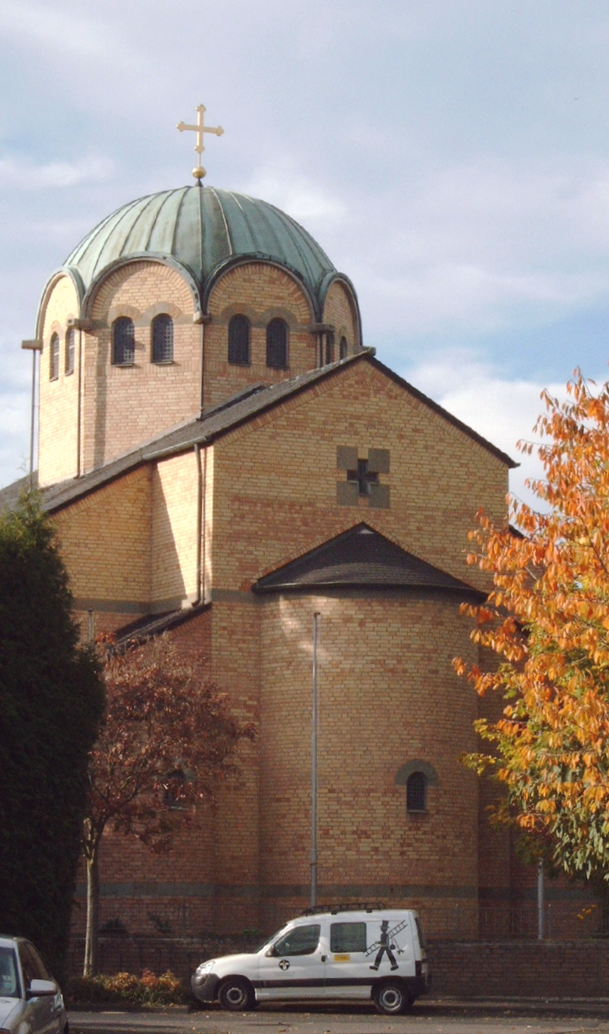 The Greek Orthodox Metropolitan Cathedral Hagia Trias in Bonn in the locality of Limperich.